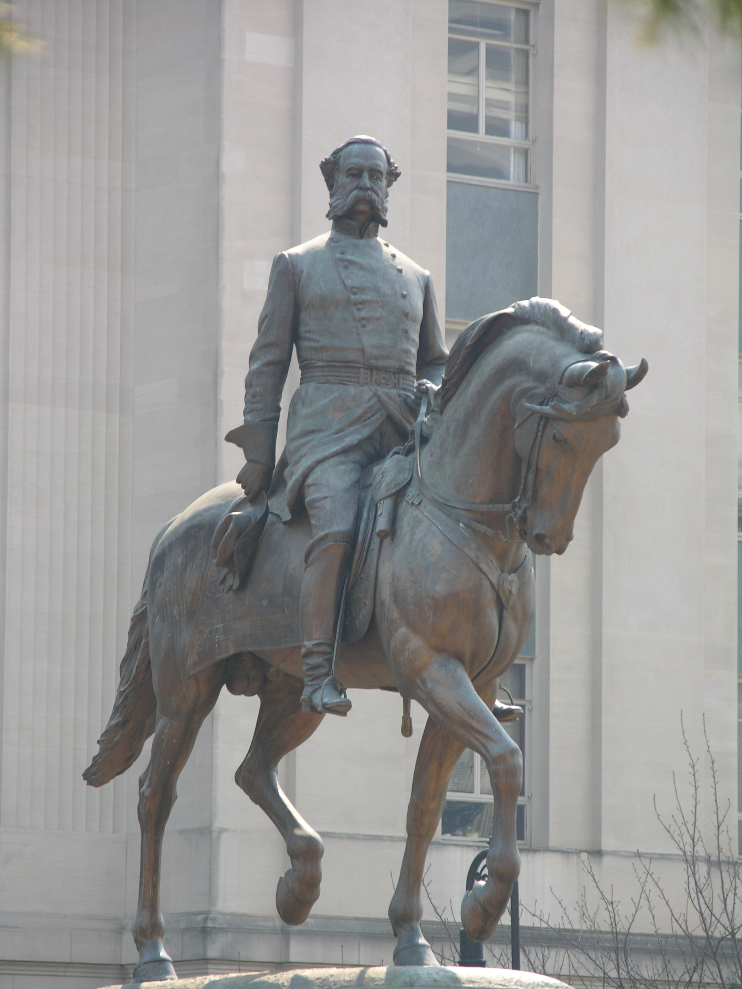 Wade Hampton statue on the South Carolina Statehouse lawn, by Frederick Ruckstull